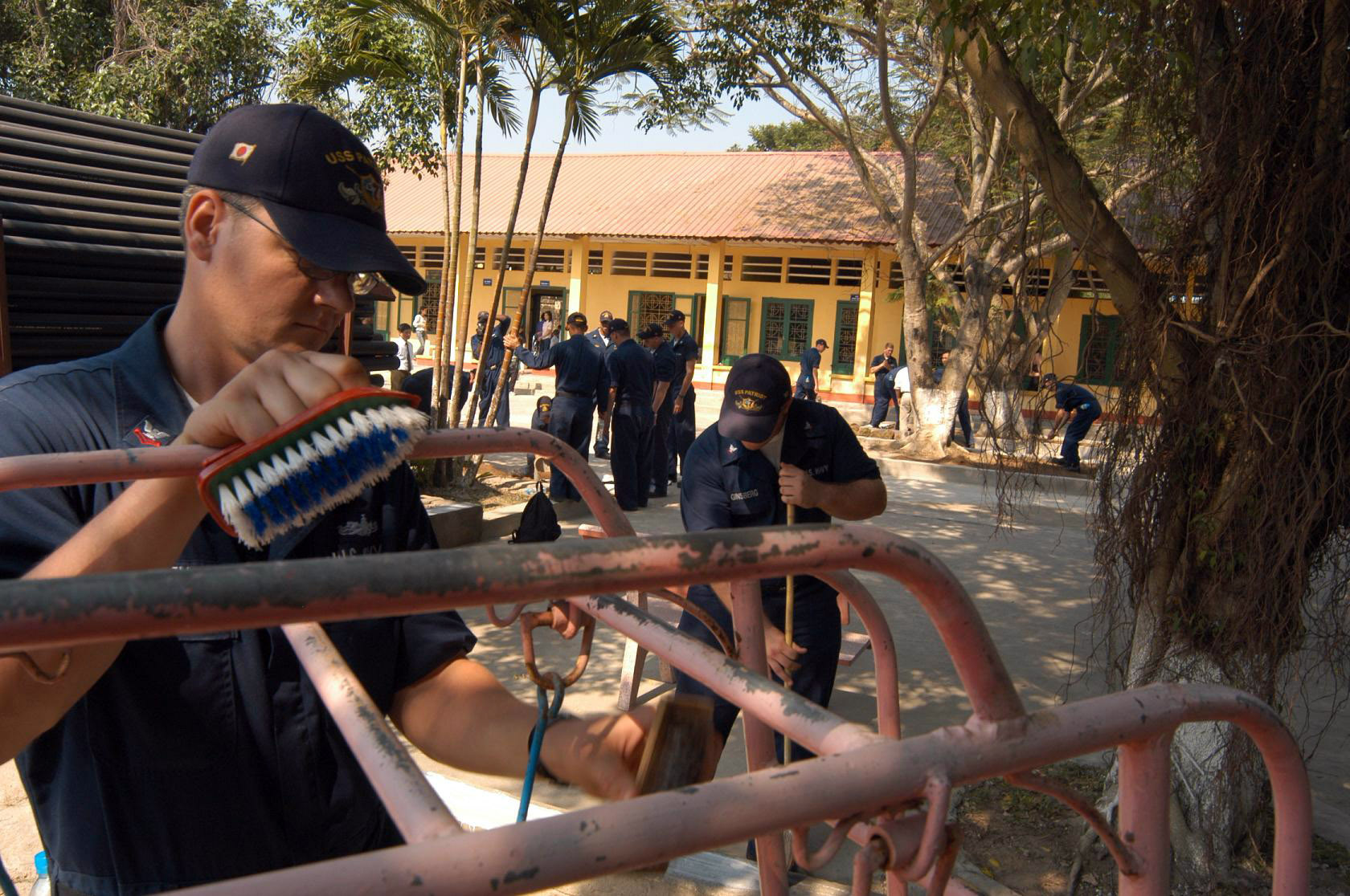 HAI PHONG, Vietnam (Nov. 16, 2007) Mine countermeasures ship USS Patriot (MCM 7) and USS Guardian (MCM 5) Sailors renovate playground equipment at the School for Blind Children of Hai Phong, during a community service project. Sailors cleaned, painted and sang songs with the children during the project. U.S. Navy photo by Mass Communication Specialist 2nd Class Joshua J. Wahl (RELEASED)